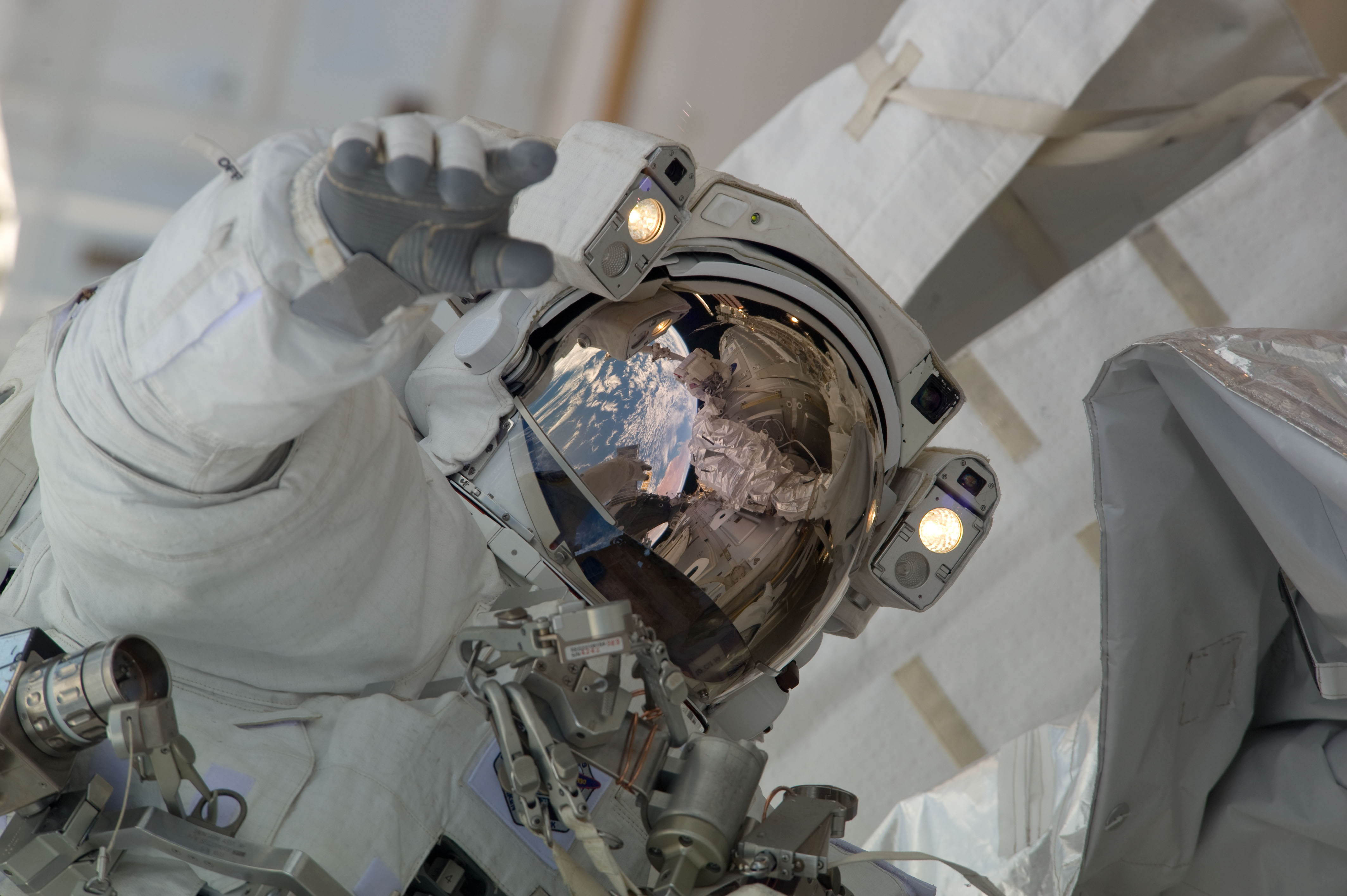 NASA astronaut Nicholas Patrick, STS-130 mission specialist, participates in the mission's second session of extravehicular activity (EVA) as construction and maintenance continue on the International Space Station. During the five-hour, 54-minute spacewalk, Patrick and Robert Behnken (out of frame), mission specialist, connected two ammonia coolant loops, installed thermal covers around the ammonia hoses, outfitted the Earth-facing port on the Tranquility node for the relocation of its Cupola, and installed handrails and a vent valve on the new module.